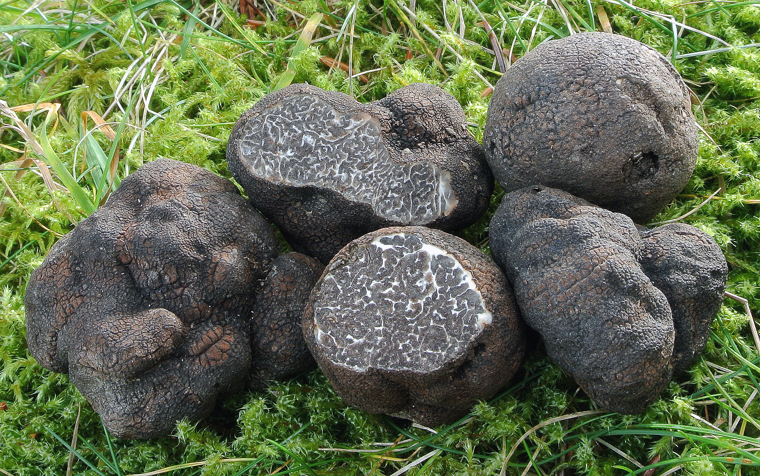 Fruit bodies of the "smooth black truffle" Tuber macrosporum. Specimens found in Murisengo, Torino, Piemonte, Italy. Notes: "Notes: Called in Italy “tartufo nero liscio” Uncommon. Spores: 30-80 × 35-60, ellipsoid, with a net; brown colored."